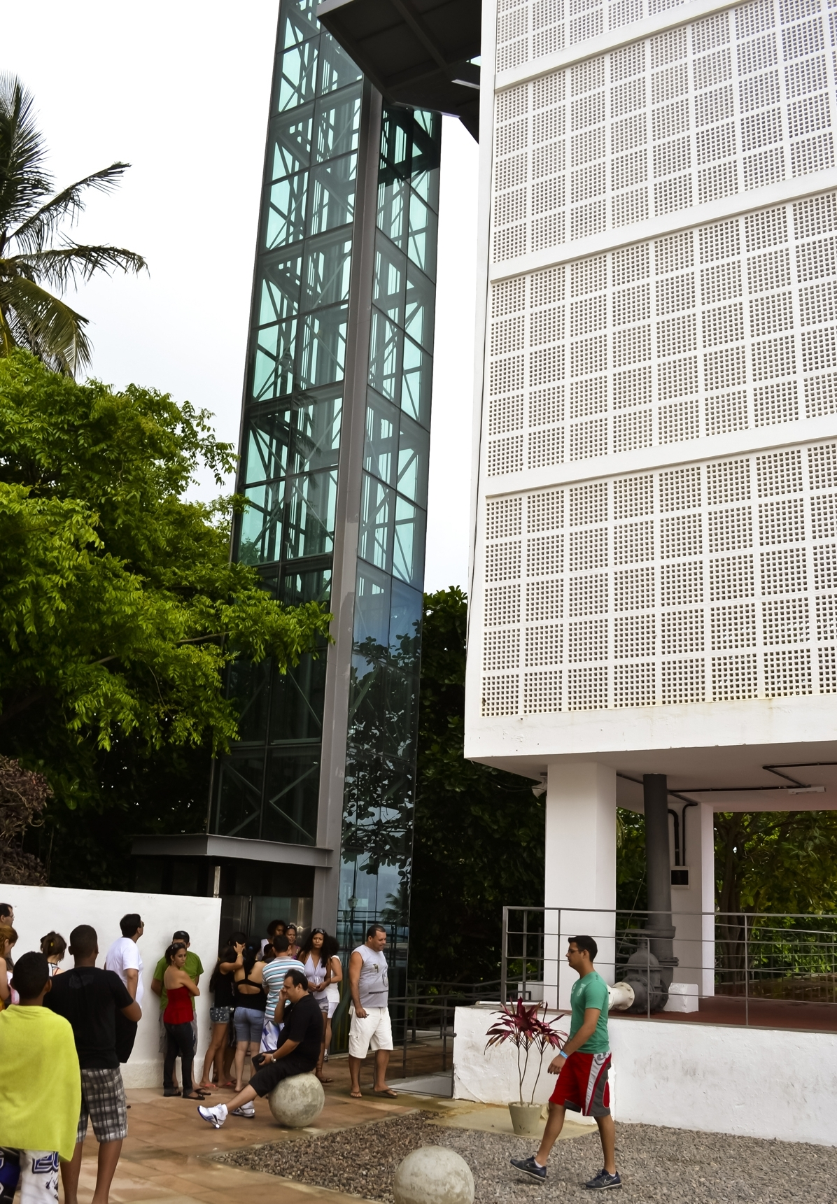 Panoramic Elevator - Olinda, Pernambuco, Brazil